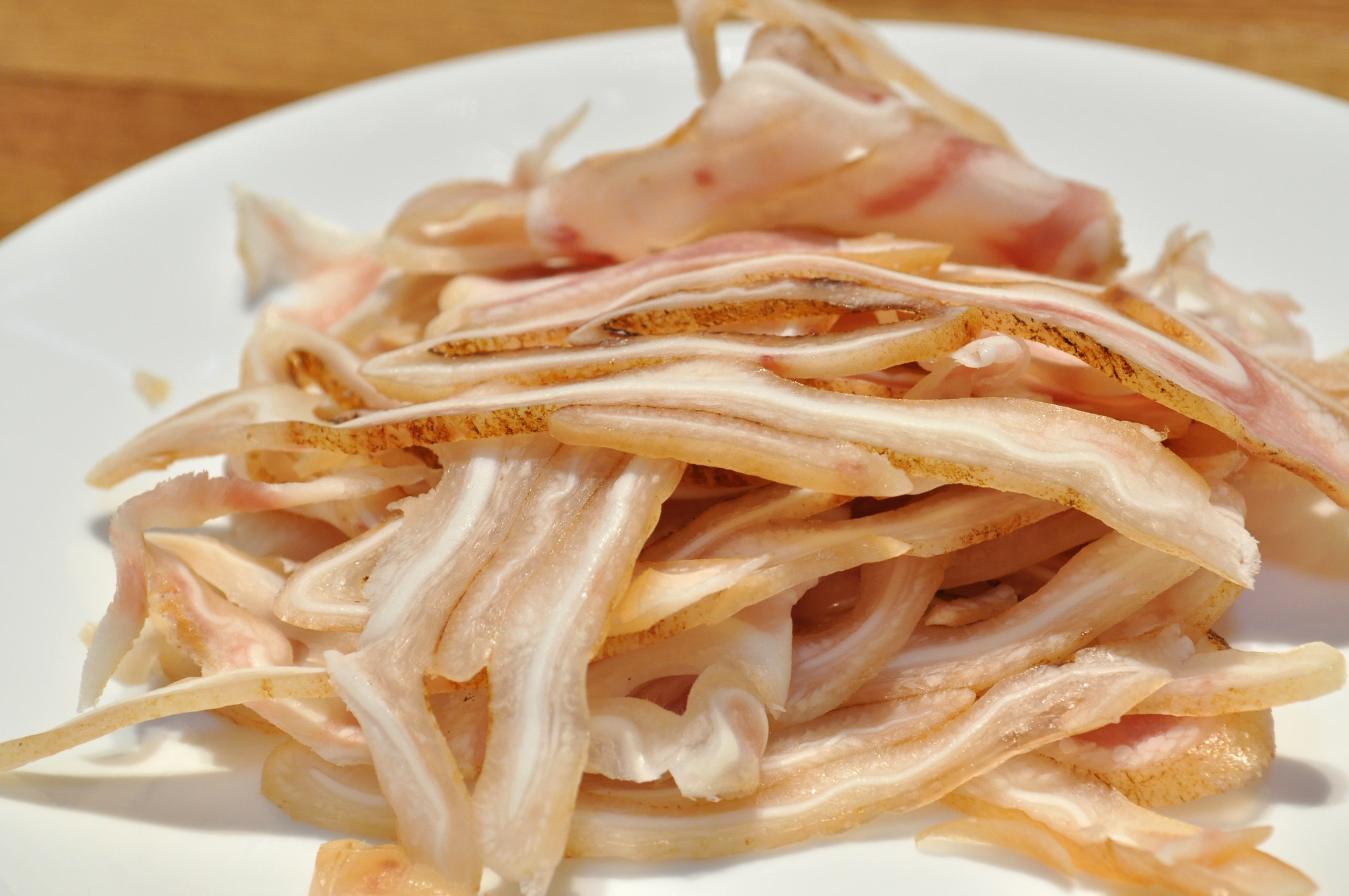 Mimigā, Sliced pig ears. Okinawa Cuisine.